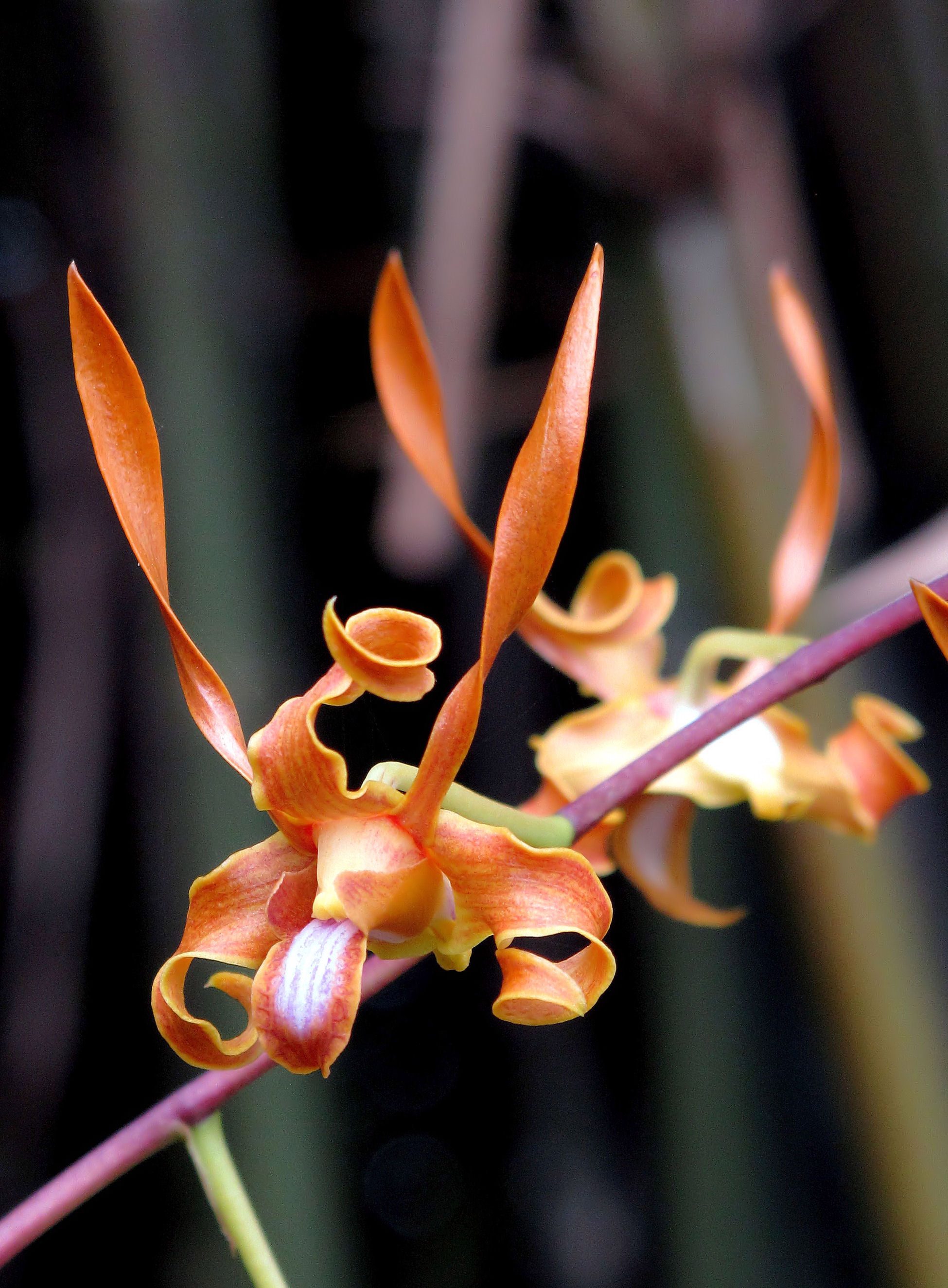 The first bloom on this plant. We're a little disappointed that the flower is more brown than orange. cultivated, South Miami, Florida, USA.